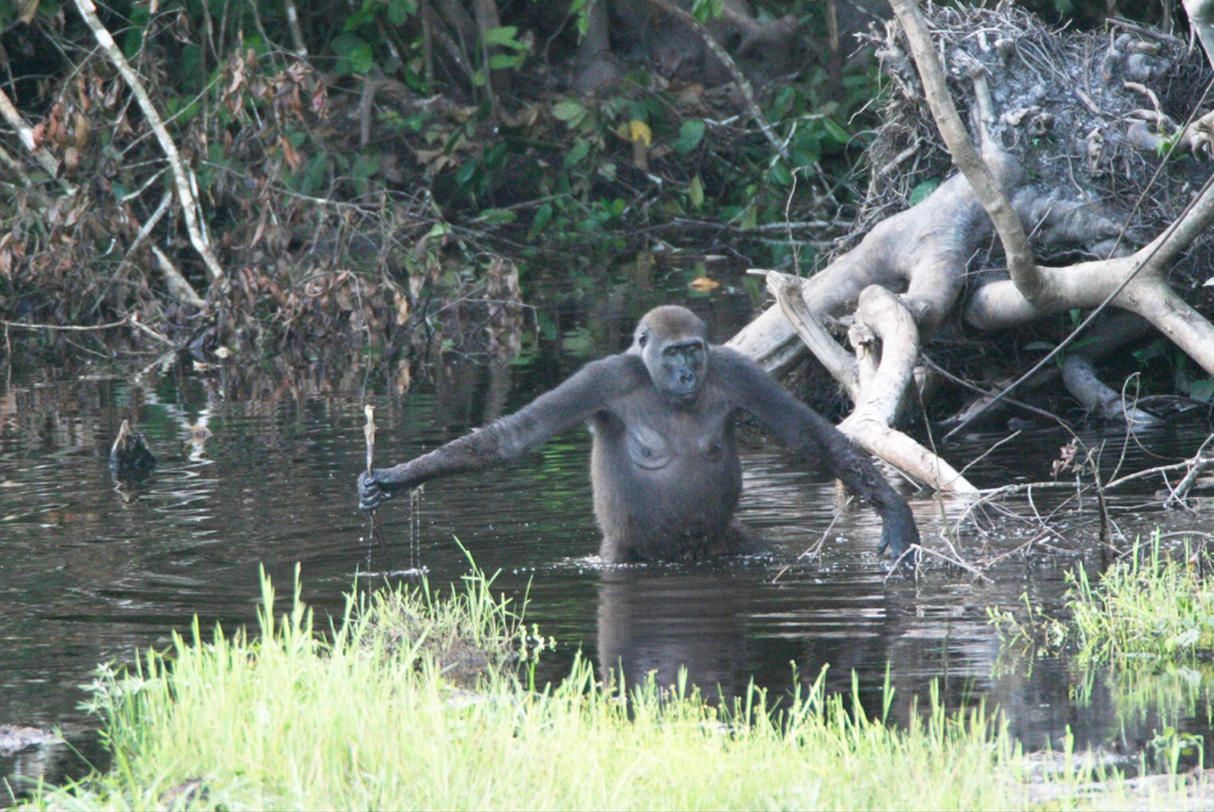 A first time for everything: This adult female Western lowland gorilla in Nouabalé-Ndoki National Park, northern Congo, uses a branch as a walking stick to gauge the water's depth, proving that gorillas use tools too. From the magazine: as part of an ongoing study of western gorillas in Nouabalé-Ndoki National Park in the Republic of Congo, Thomas Breuer, Mireille Ndoundou-Hockemba, and Vicki Fishlock reveal that gorillas are just as resourceful as the other great apes. From an observation platform at Mbeli Bai, a swampy forest clearing that gorillas frequently visit to forage, Breuer et al. observed an adult female gorilla named Leah (a member of a long-studied gorilla group) at the edge of a pool of water, “looking intently at the water in front of her.” Leah walked upright into the water, but stopped and returned to the edge when the water reached her waist. She then walked back into the water, grabbed a branch in front of her, detached it, and, grasping it firmly, repeatedly jabbed the water in front of her with the end of the branch, “apparently using it to test the water depth or substrate stability.” She continued walking across the pool, branch in hand, “using it as a walking stick for postural support.”